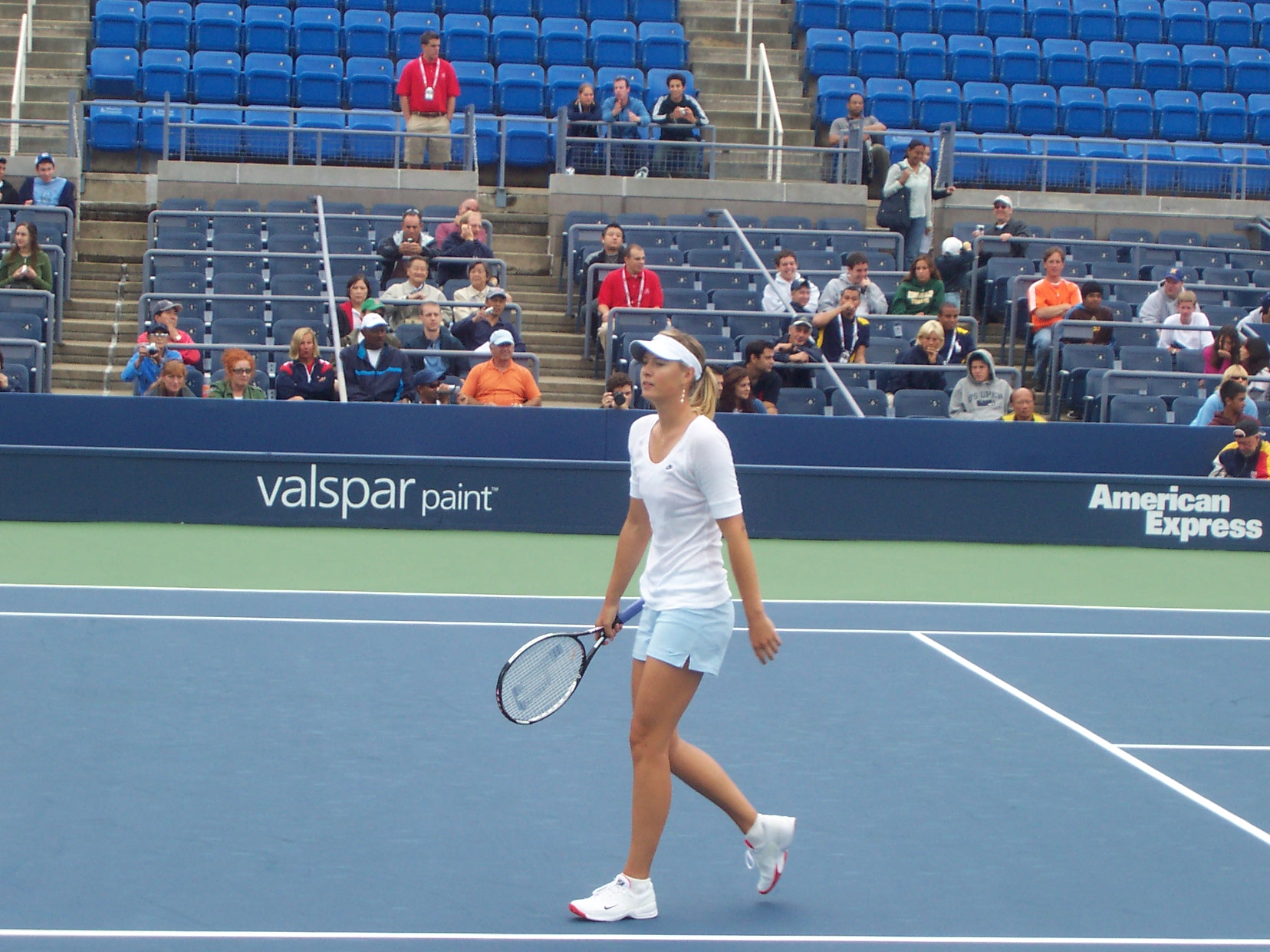 Maria Sharapova Practicing At The 2007 US Open